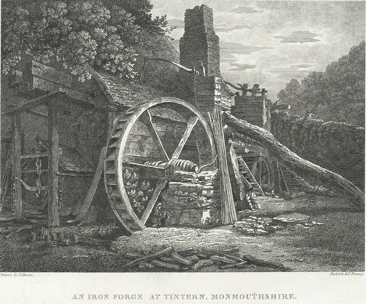 A print by Thomas Hearne with the title "Iron Forge at Tintern", dated 1795